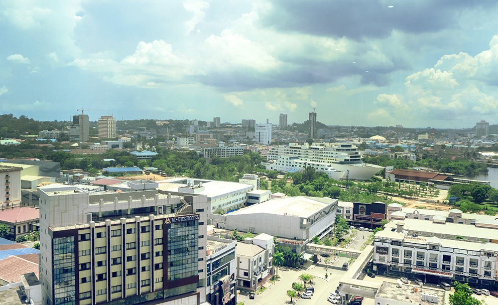 Harbour Bay Downtown is integrated city in Batam with facilities like Harbour Bay Terminal, Shopping malls, Hotels, bayside seafood restaurants and entertainment